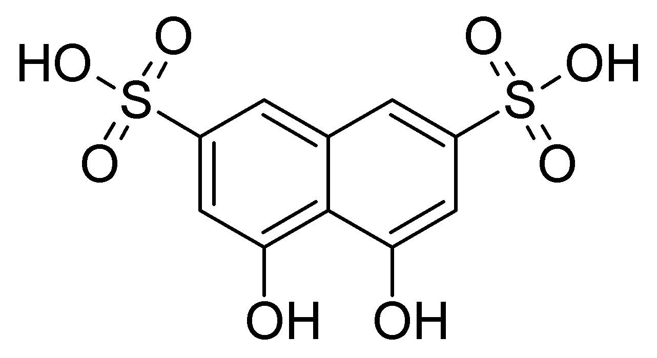 Chemical structure of Chromotropic acid